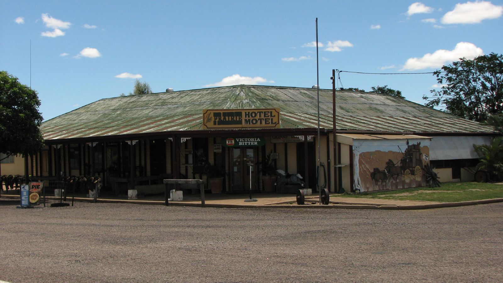 Roadhouse